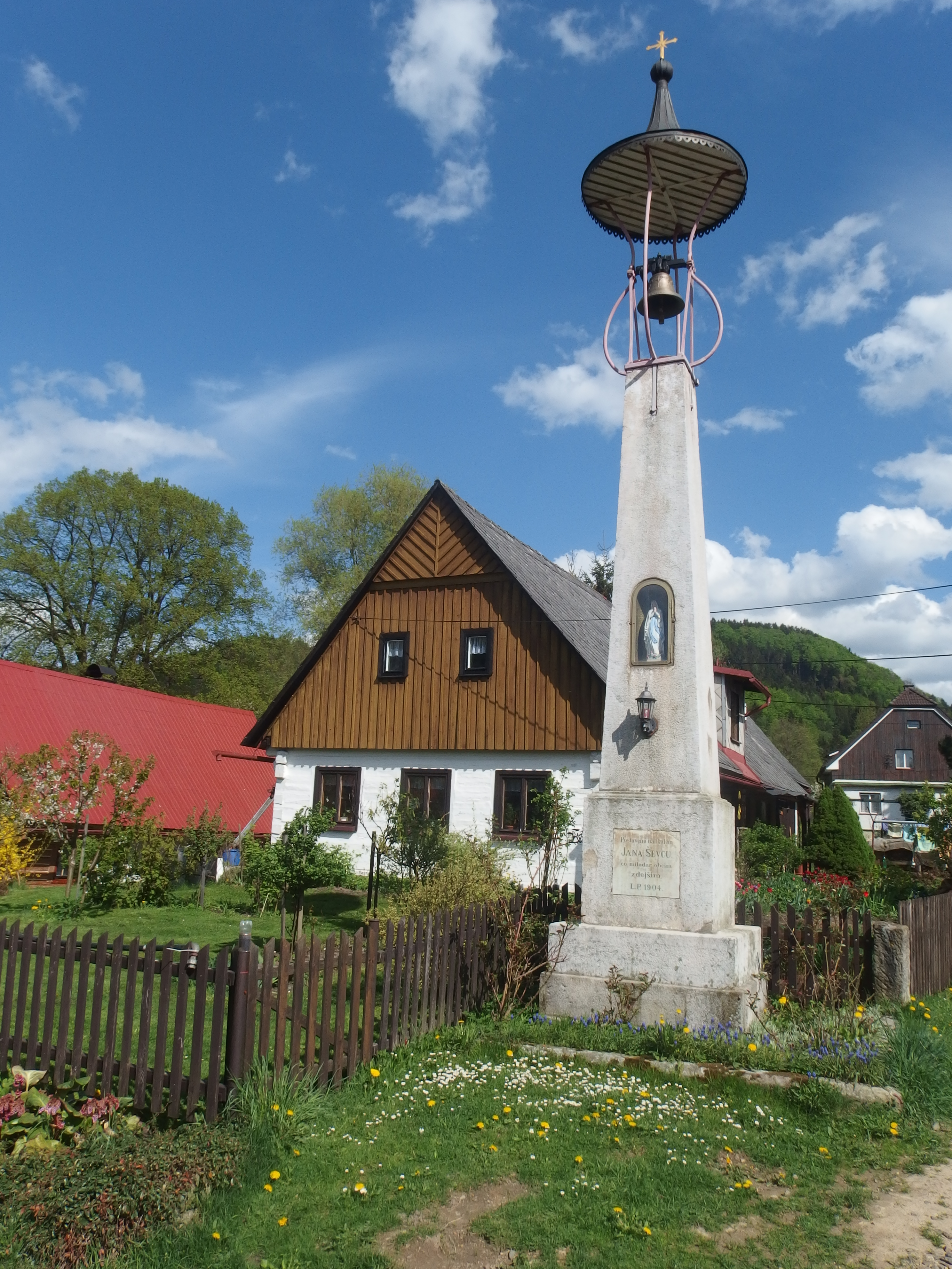 Machov, Náchod District, Czech Republic, part Machovská Lhota.